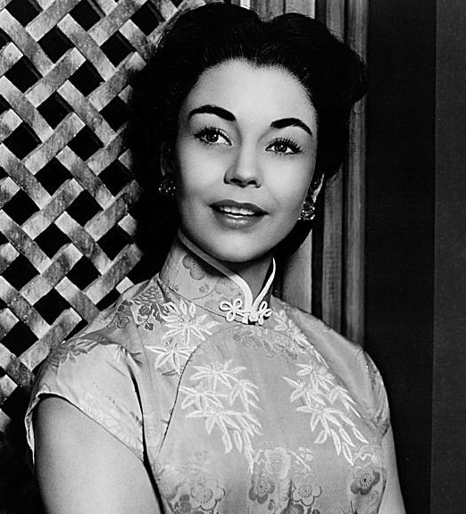 Original studio publicity photo of Jennifer Jones for film Love is a Many Splendored Thing